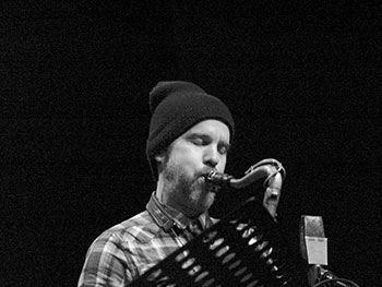 Chris Speed performing in Aarhus Denmark